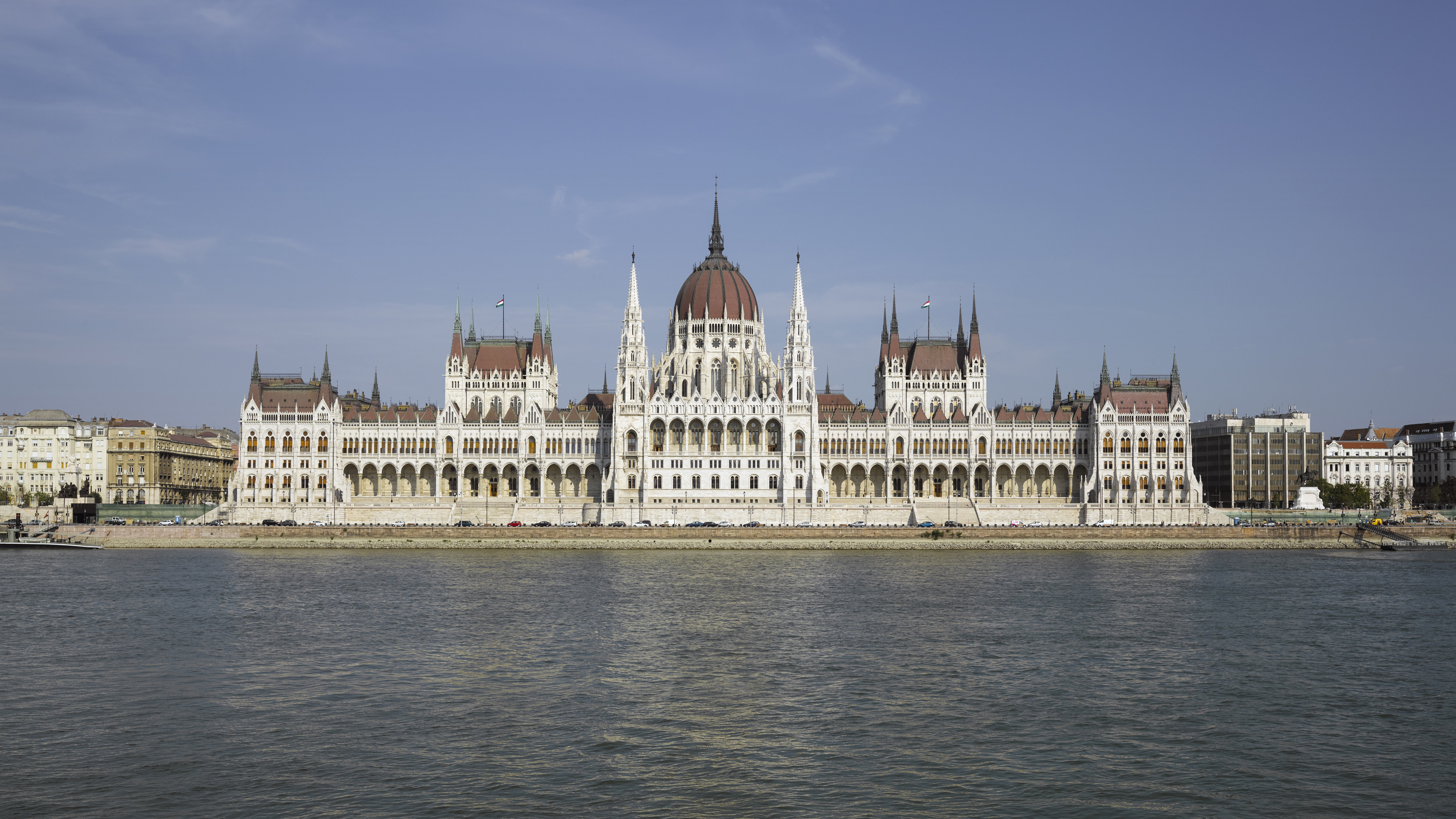 Hungarian Parliament Building, Budapest, Hungary, 2015.